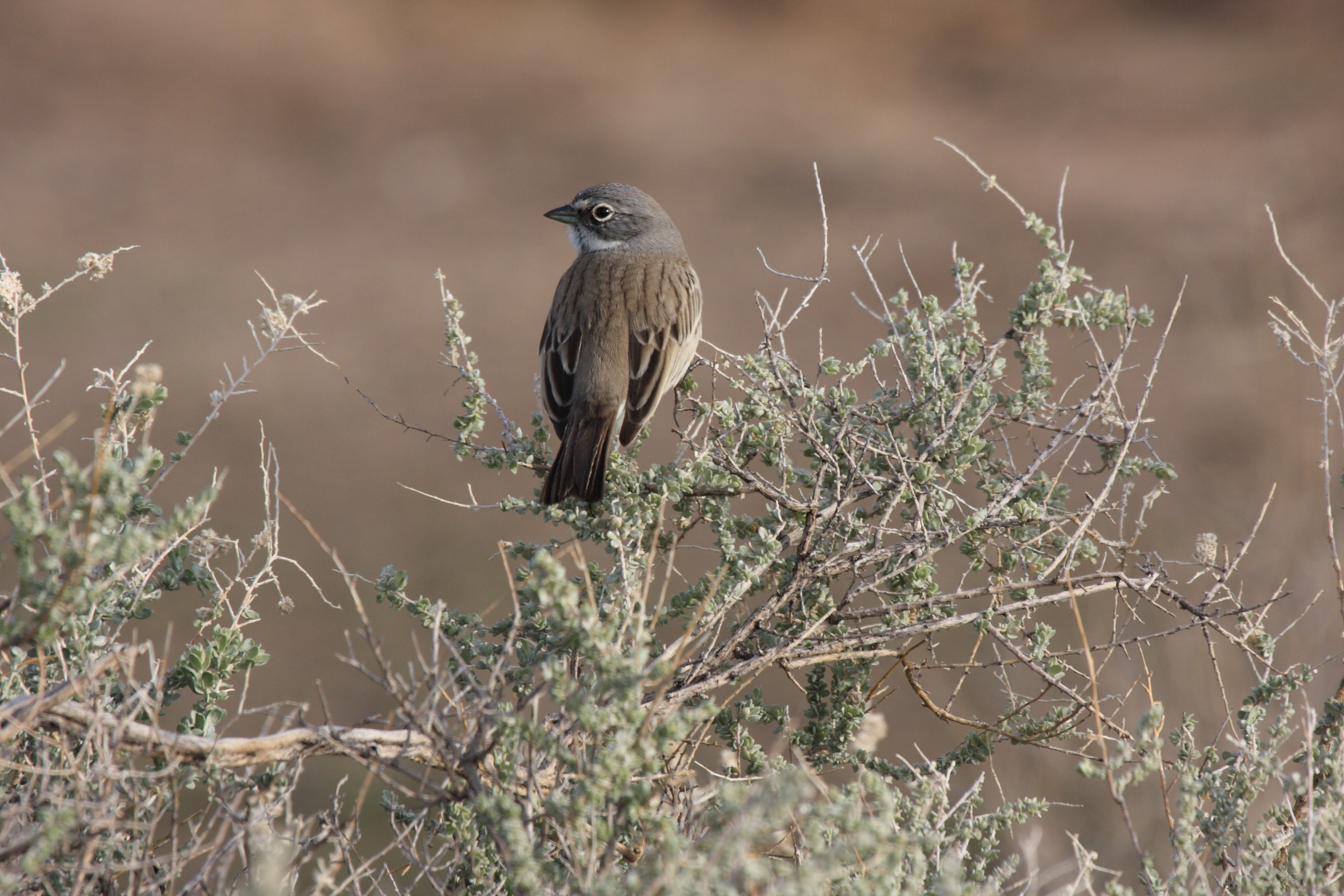 Sagebrush Sparrow Artemisiospiza nevadensis. Buckeye, Arizona, USA.